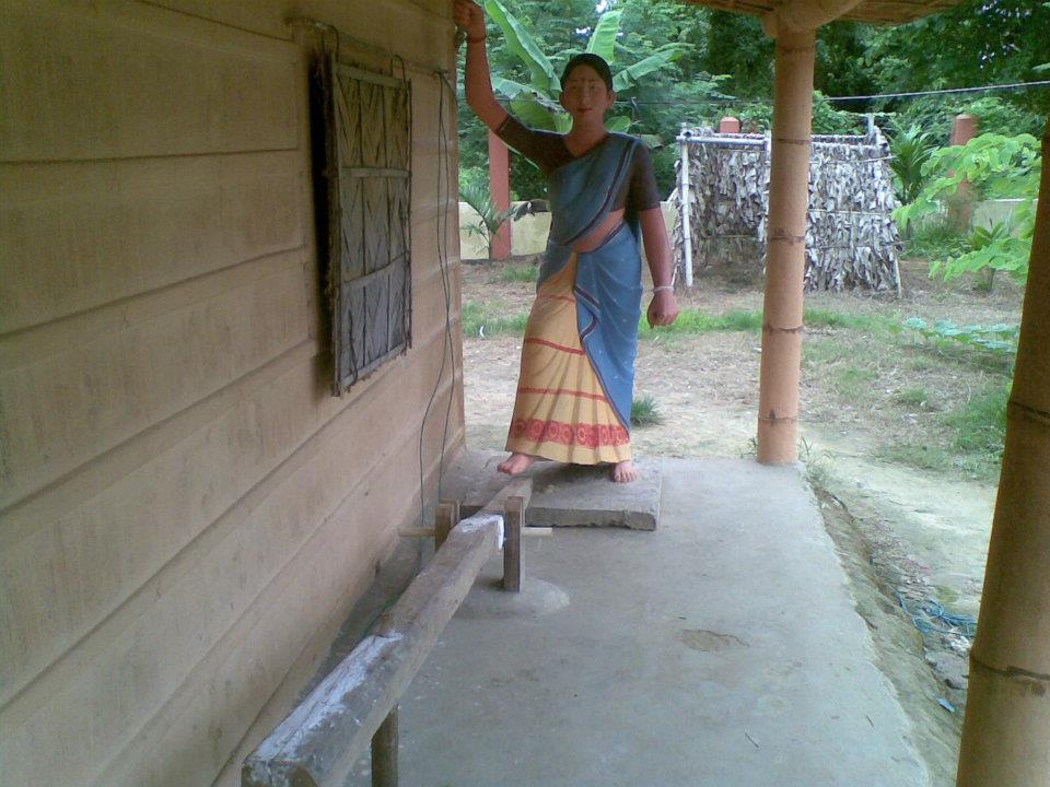 Dheki Statue